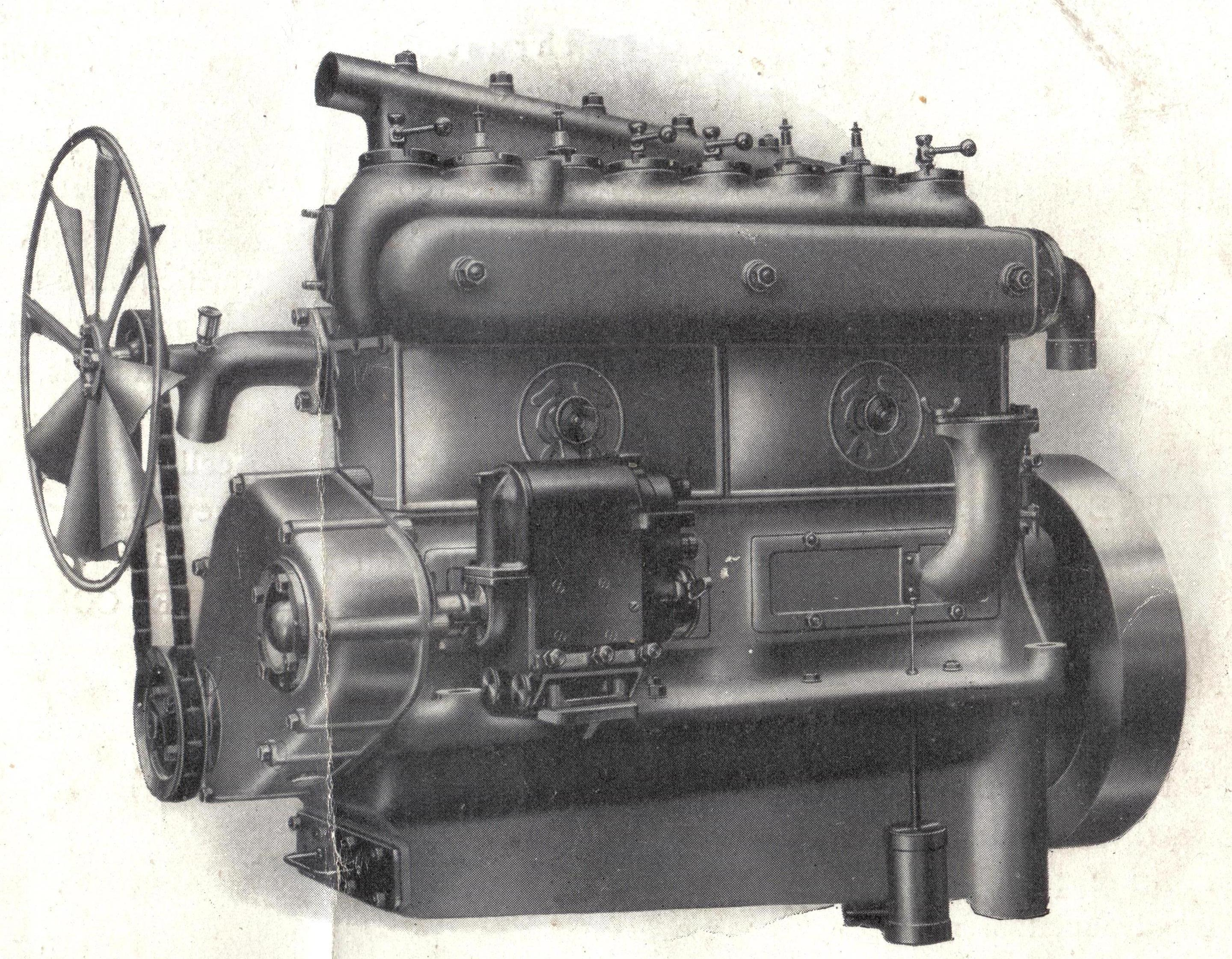 Early 16/20 A-Type Vauxhall Engine Showing external waterpump and early type exhaust manifold.